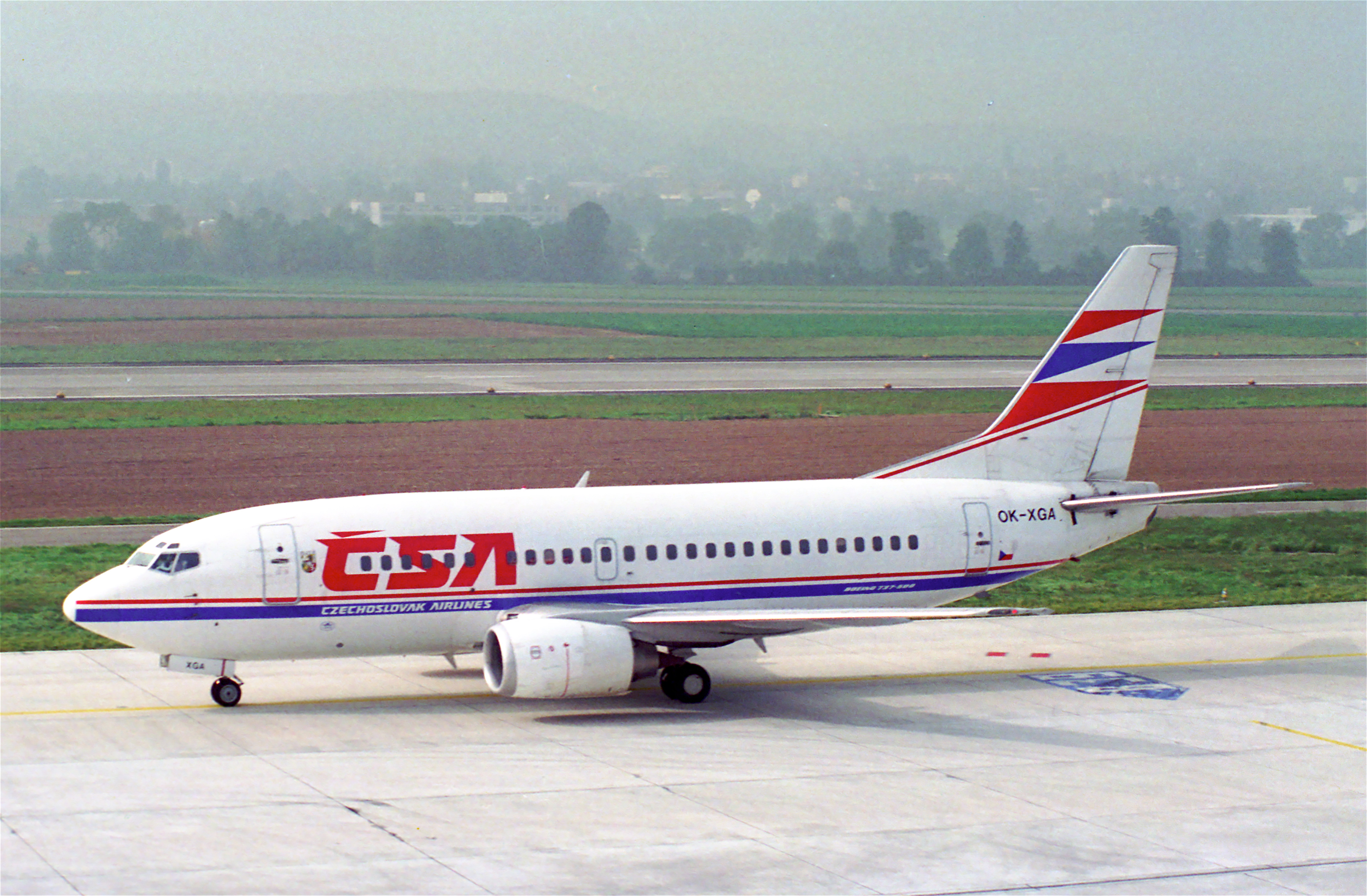 This Boeing 737-55S took its first flight on May 27, 1992 and was delivered to CSA on July 3, 1992...(c/n 26539/ 2300), stored in January 2013...